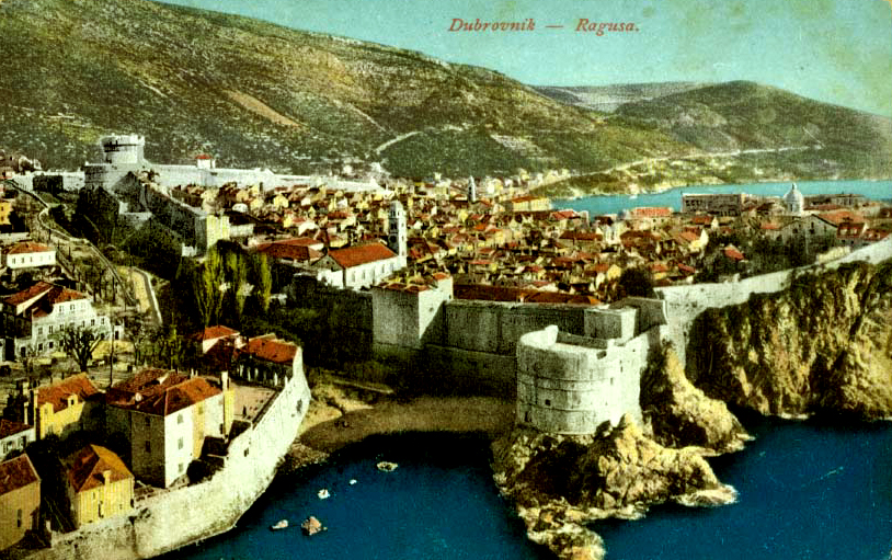 Postcard of Austro-Hungary, Dubrovnik/Ragusa, 1914